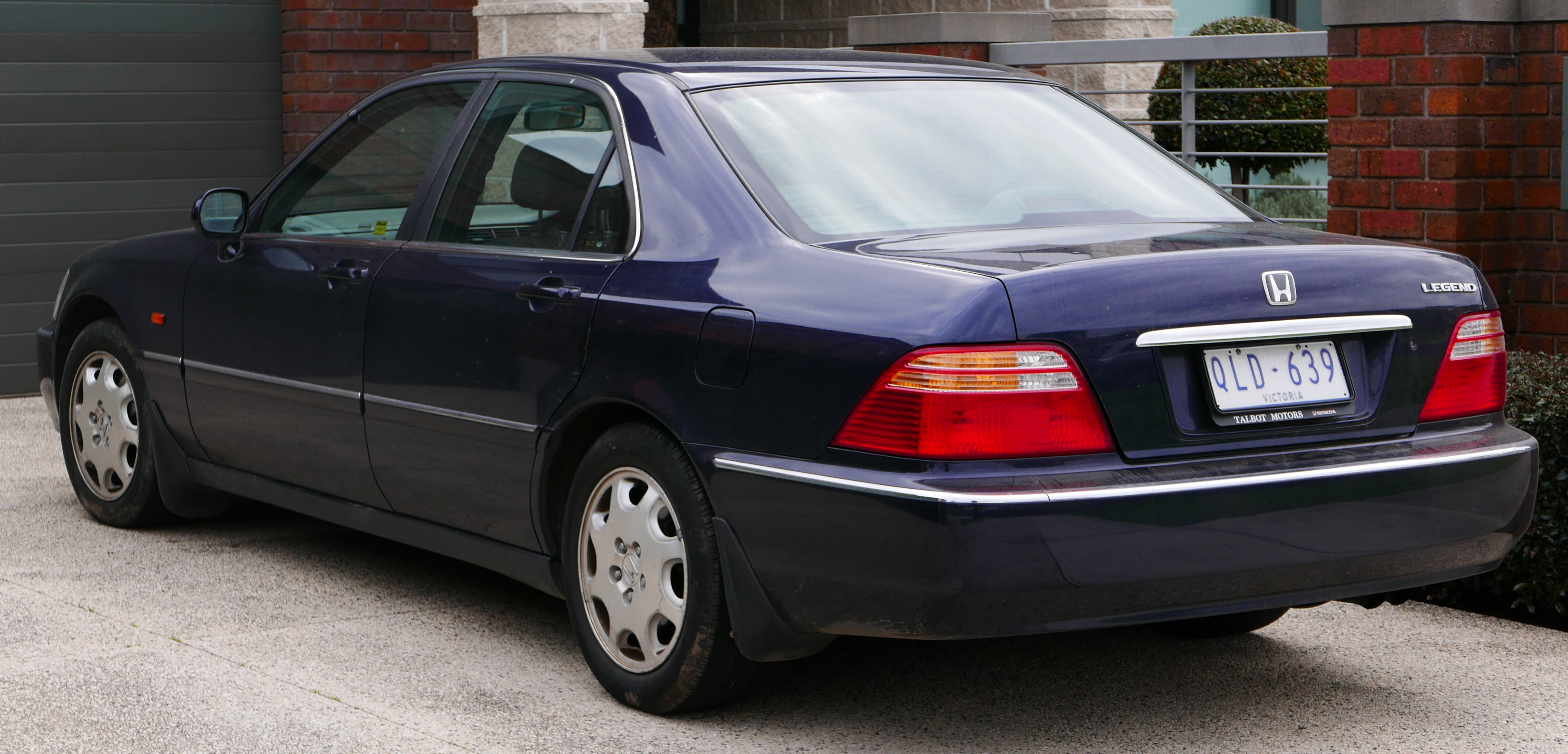 2000 Honda Legend (KA9) sedan. Photographed in Fairfield, Victoria, Australia. Vehicle registration enquiry resultsJurisdictionVictoriaRegistrationQLD639Chassis codeJHMKA9620YC200819Engine codeC35A35000217Compliance date2000-07Year of manufacture2000